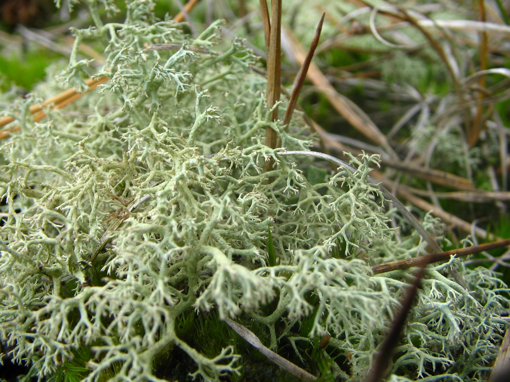 Cladina portentosa One of the lichens that is called "reindeer moss" Photo taken on the island of Terschelling, Netherlands